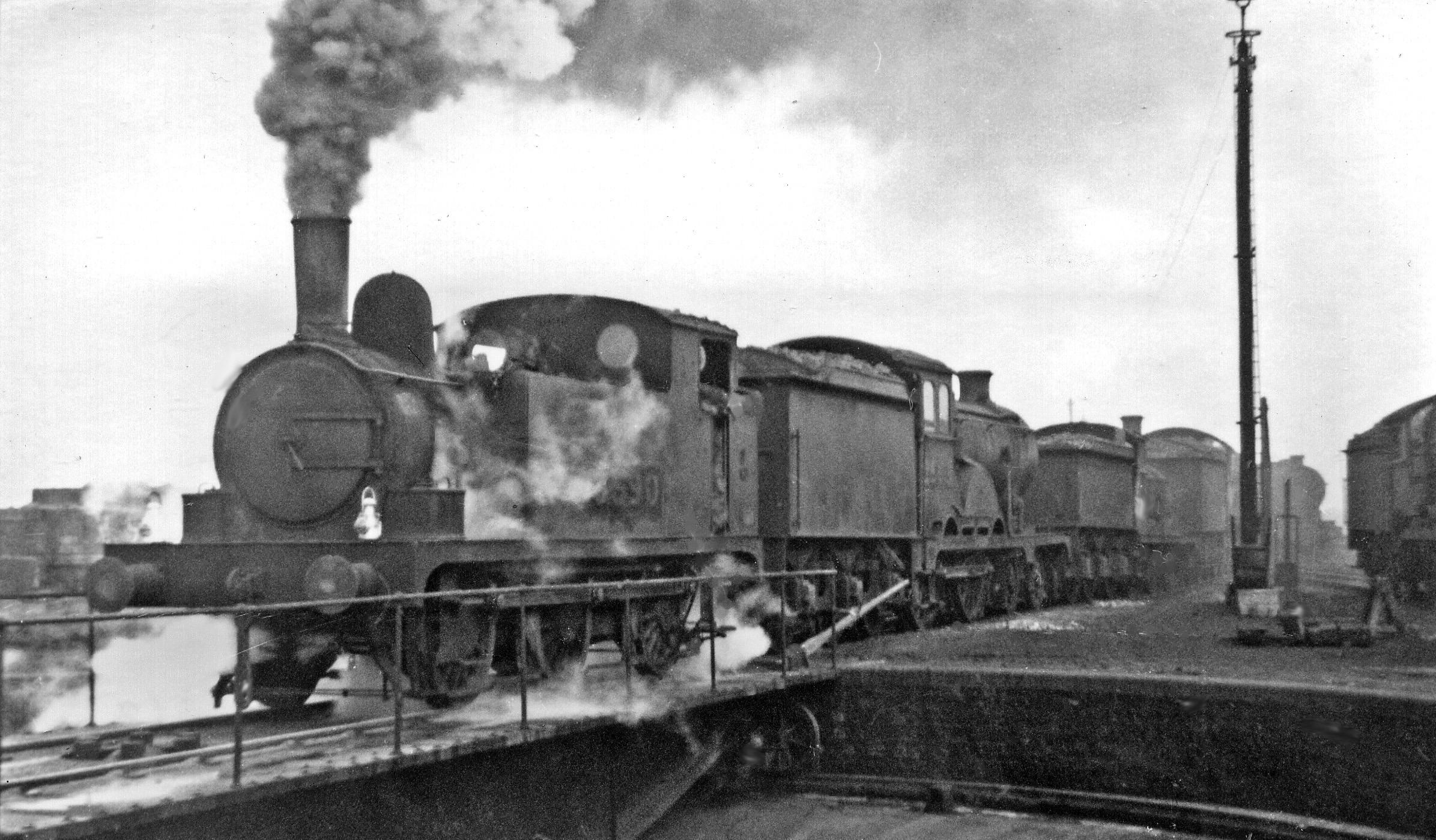 Activity in the great Locomotive Yard at Stratford in 1947. View northward; ex-Great Eastern major Depot. On a foggy January Saturday, Holden J67 0-6-0T No. 8590 of 1899, one of an army of shunting tanks kept at Stratford, is struggling across a turntable with a string of dead locomotives (D15 'Claud' 4-4-0 No. 2509, J15 0-6-0 No. 5374 and D16/3 'Super Claud' 4-4-0 No. 2608). The Fitters were on Strike, so an immense clutter of immobile engines had accumulated in the Yard. That afternoon I walked miles and noted no less than 361 locomotives, about half of which were here out in the'Field', as this area was called - and it was not even a Sunday, when most of the engines would be resting.